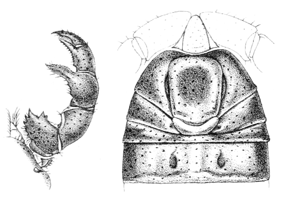 Female of whip scorpion Typopeltis amuriensis (Archnida: Thelypholida). Pedipalp (left) and anterior part of preabdomen from ventral view (right).